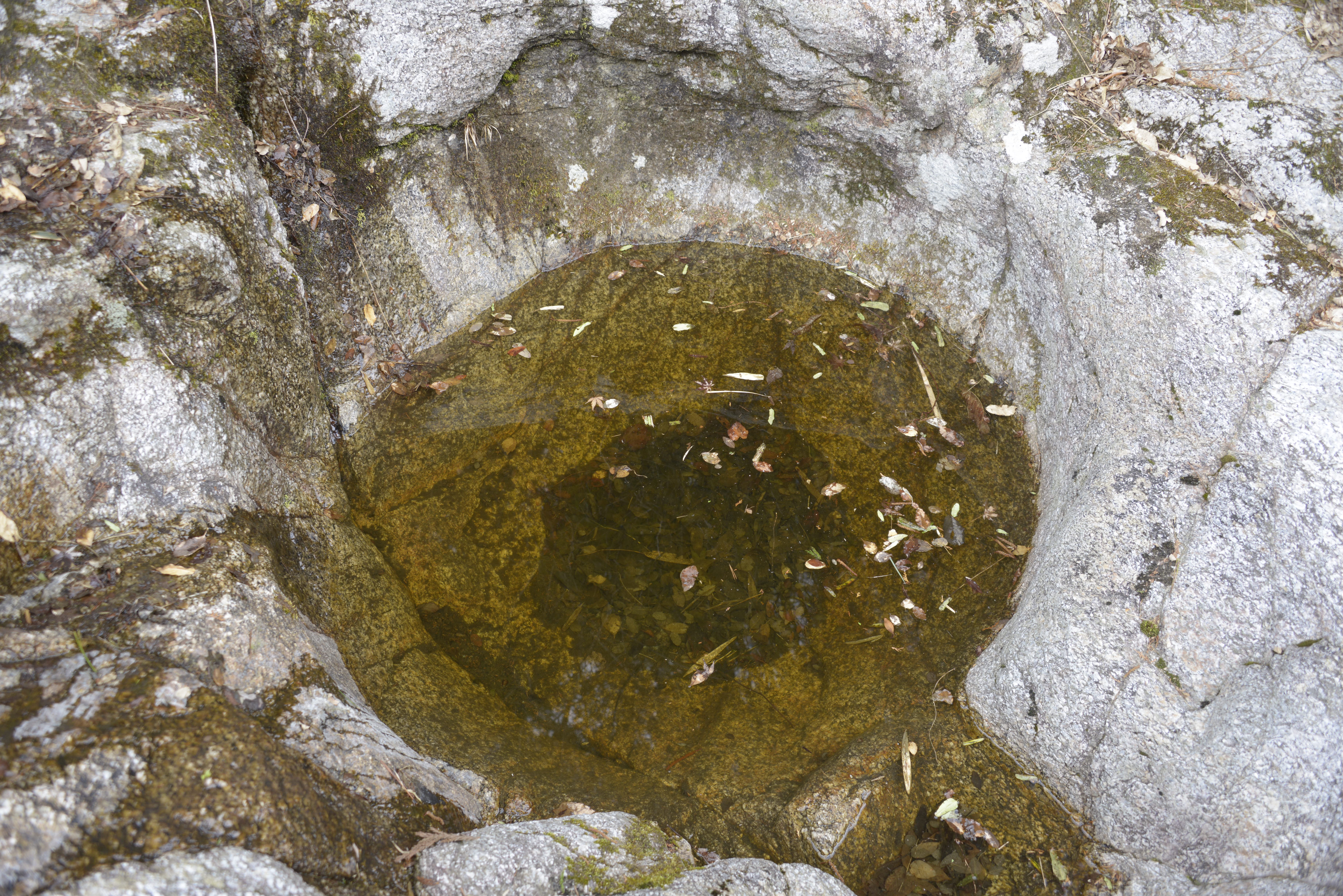 kasagi,kyoto oketu